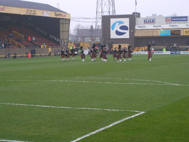 Boothferry Park, Boothferry Road, Hull, East Riding of Yorkshire, England.Hull City's old ground. This picture shows the celebrations taking place on the last day that football was played at the ground.